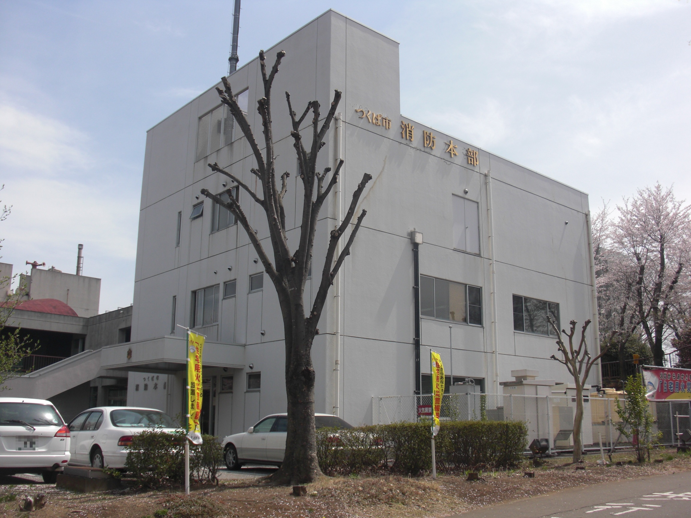 This was the head office building of the Tsukuba city fire department, which is in Kasuga, Tsukuba, Ibaraki, Japan.